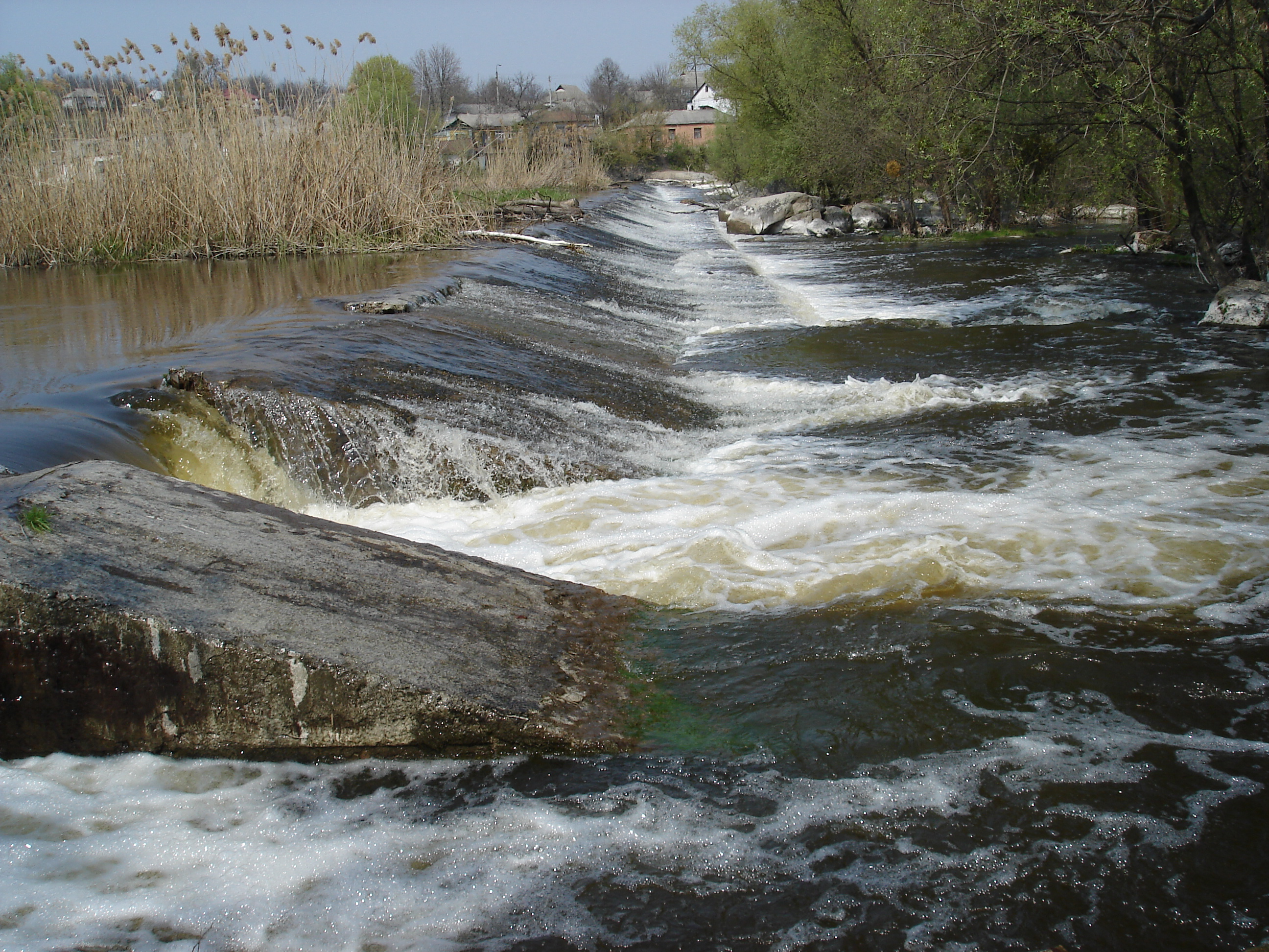 spring water over dam in Boguslav, 2006